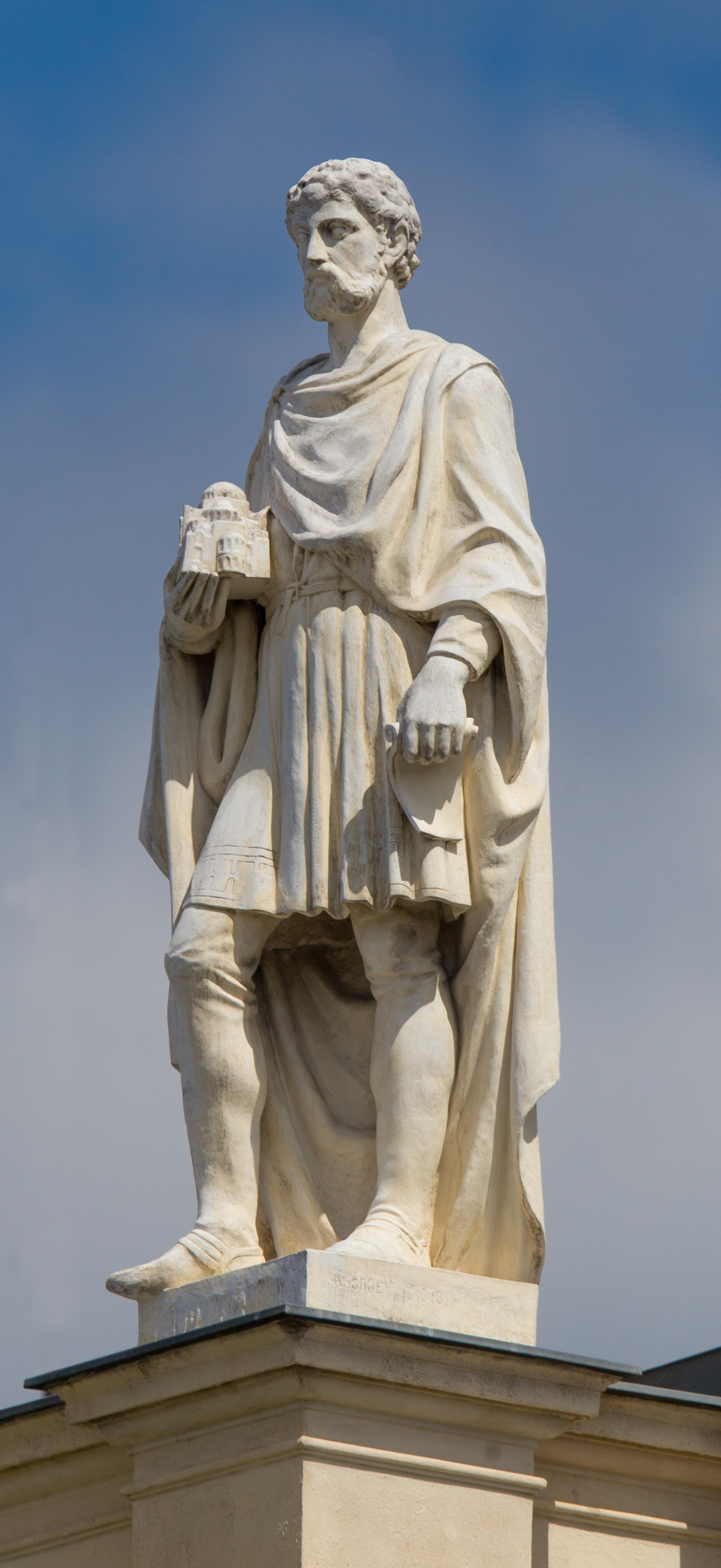 Kunsthistorisches Museum in Vienna Figures on the roof The making of this work was supported by Wikimedia Austria. For other files made with the support of Wikimedia Austria, please see the category Supported by Wikimedia Österreich.